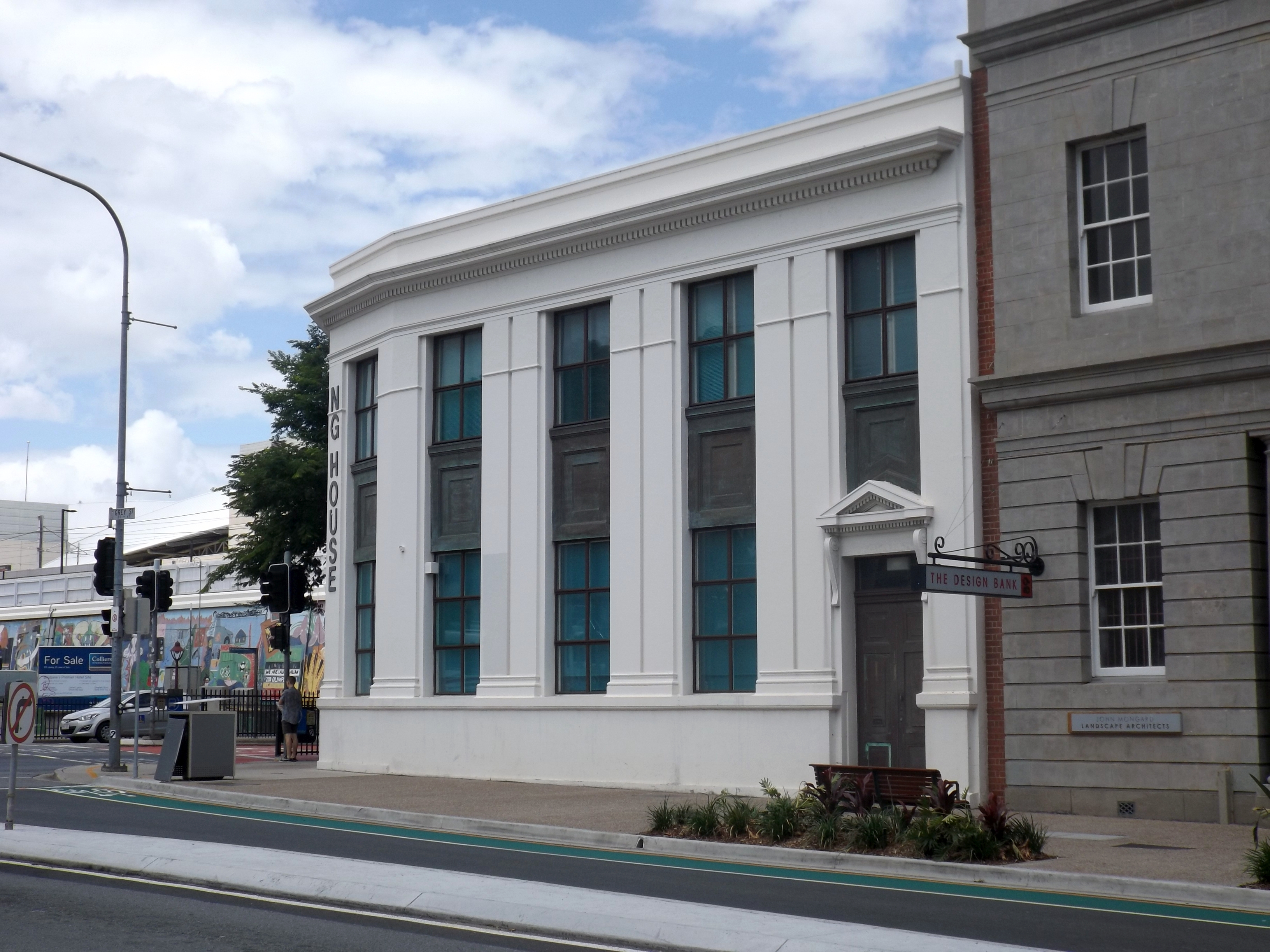 Photo of former Queensland National Bank at South Brisbane, Brisbane, Queensland, Australia.